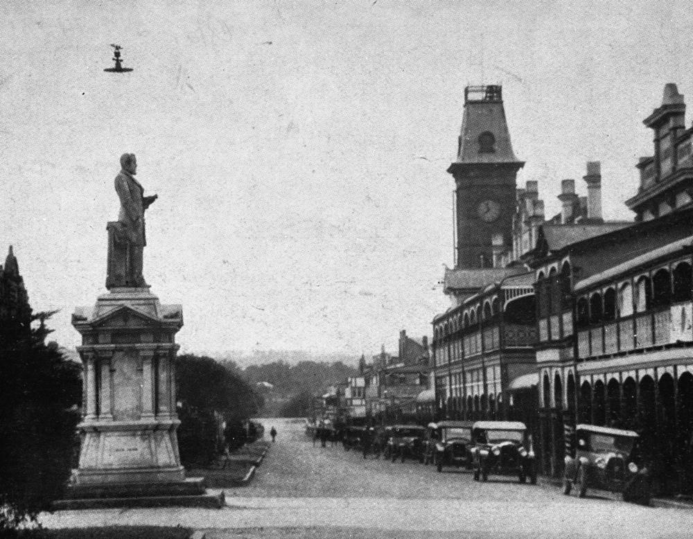 Statue of Thomas Joseph Byrnes, Warwick, ca. 1932. Thomas Joseph Byrnes, 1860-1898, barrister and politician, was Queensland Premier from April to October 1898. This image depicts a memorial statue erected and dedicated to him in Warwick in 1902. Caption: Memorial to Thomas Joseph Byrnes in Palmerin Street.